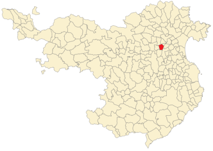 Borrassà